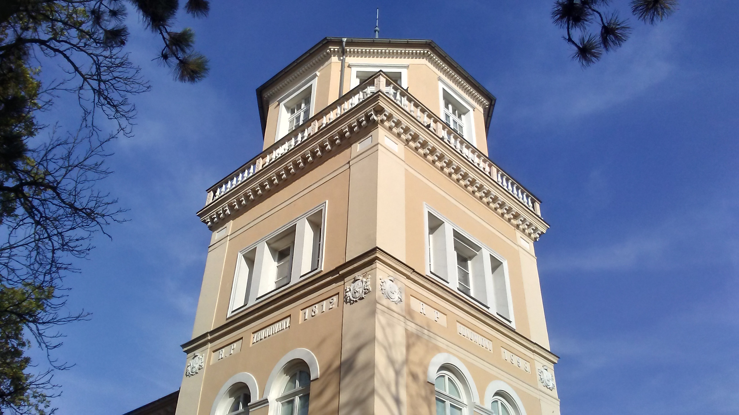 Since 1812. Founding of City Father's palace, Tomaszów Mazowiecki